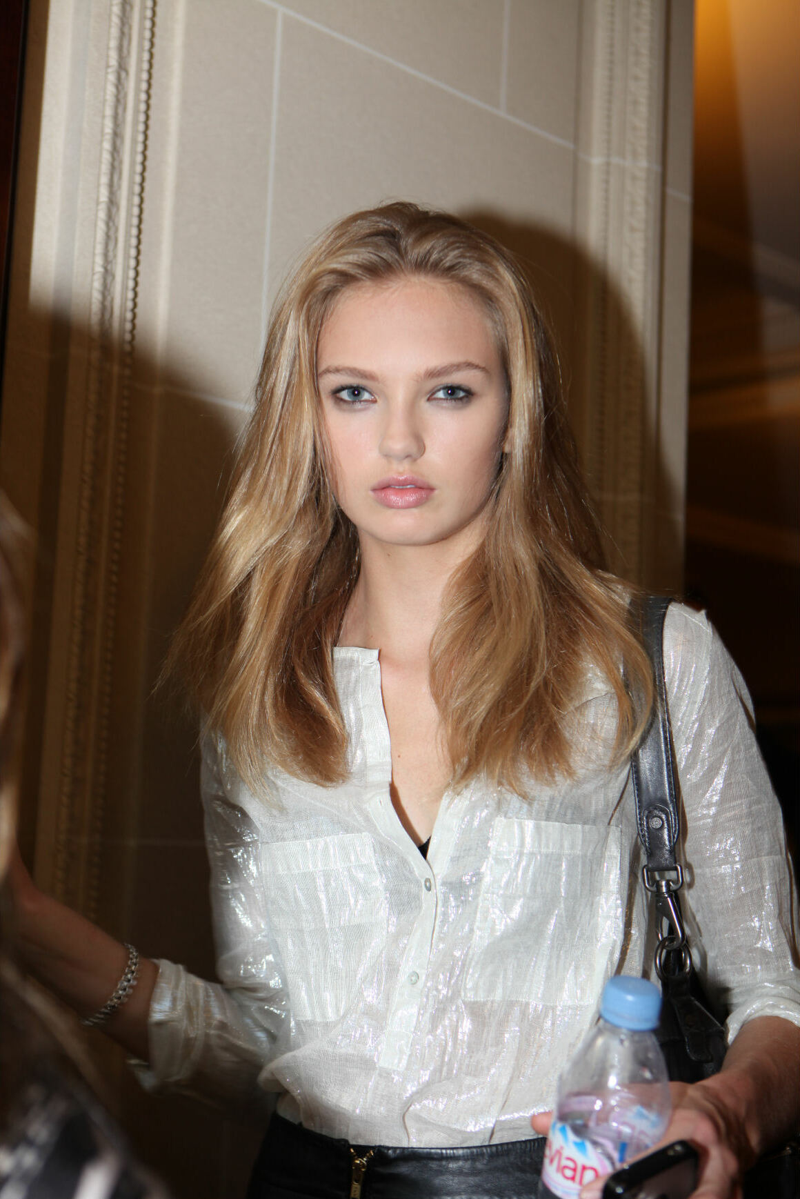 Model Romee Strijd on September 29, 2011.